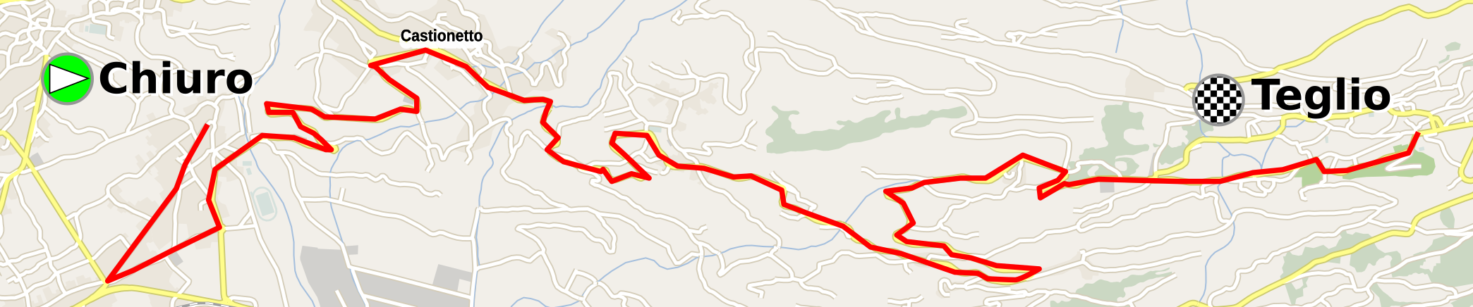 Map of stage 6 from Giro donne 2019